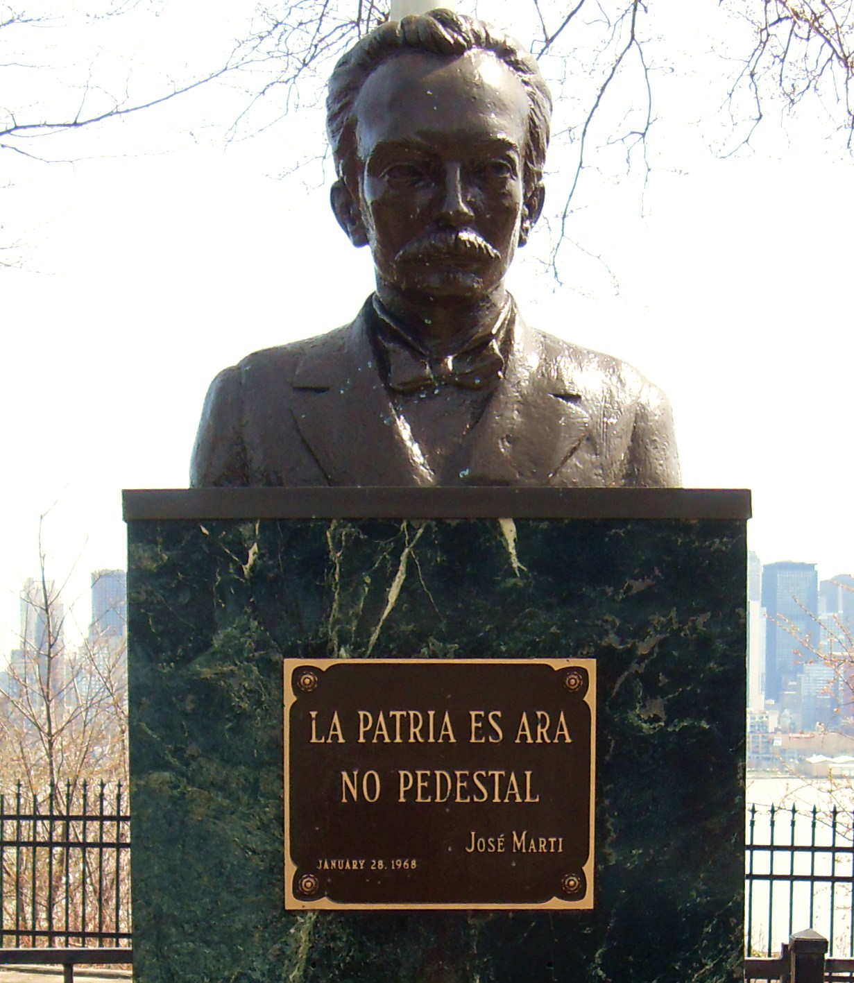 Monument of Jose Marti in West New York NJ